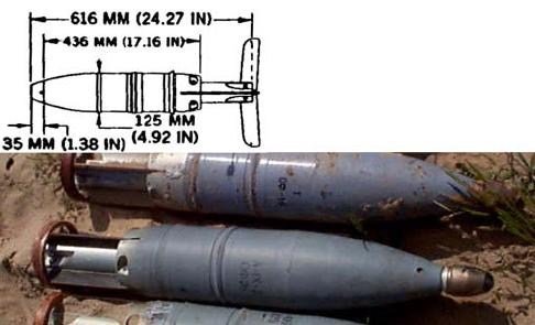 A 125mm OF-26 HE-FRAG round.